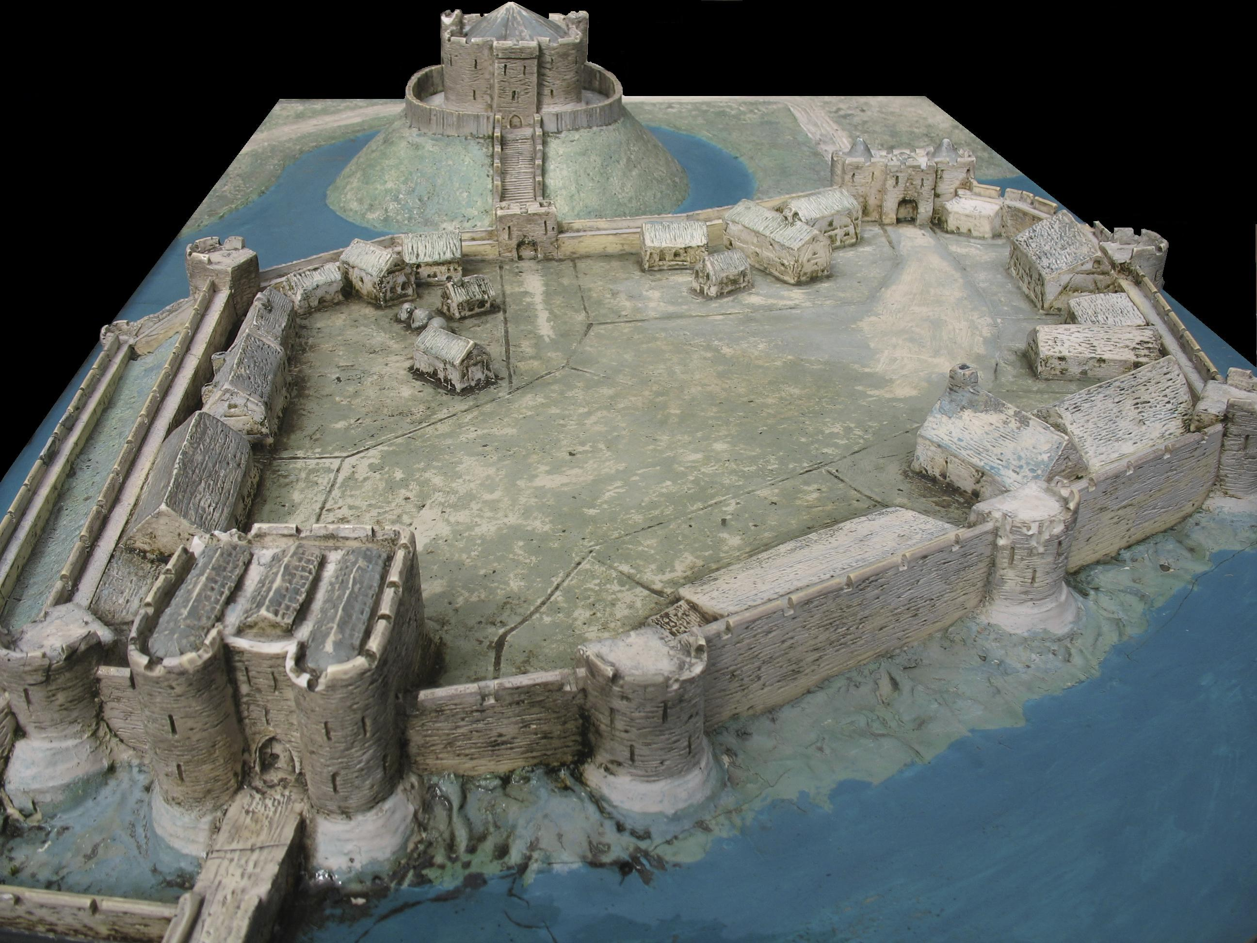 A diorama of York Castle, with the background blacked out for clarity